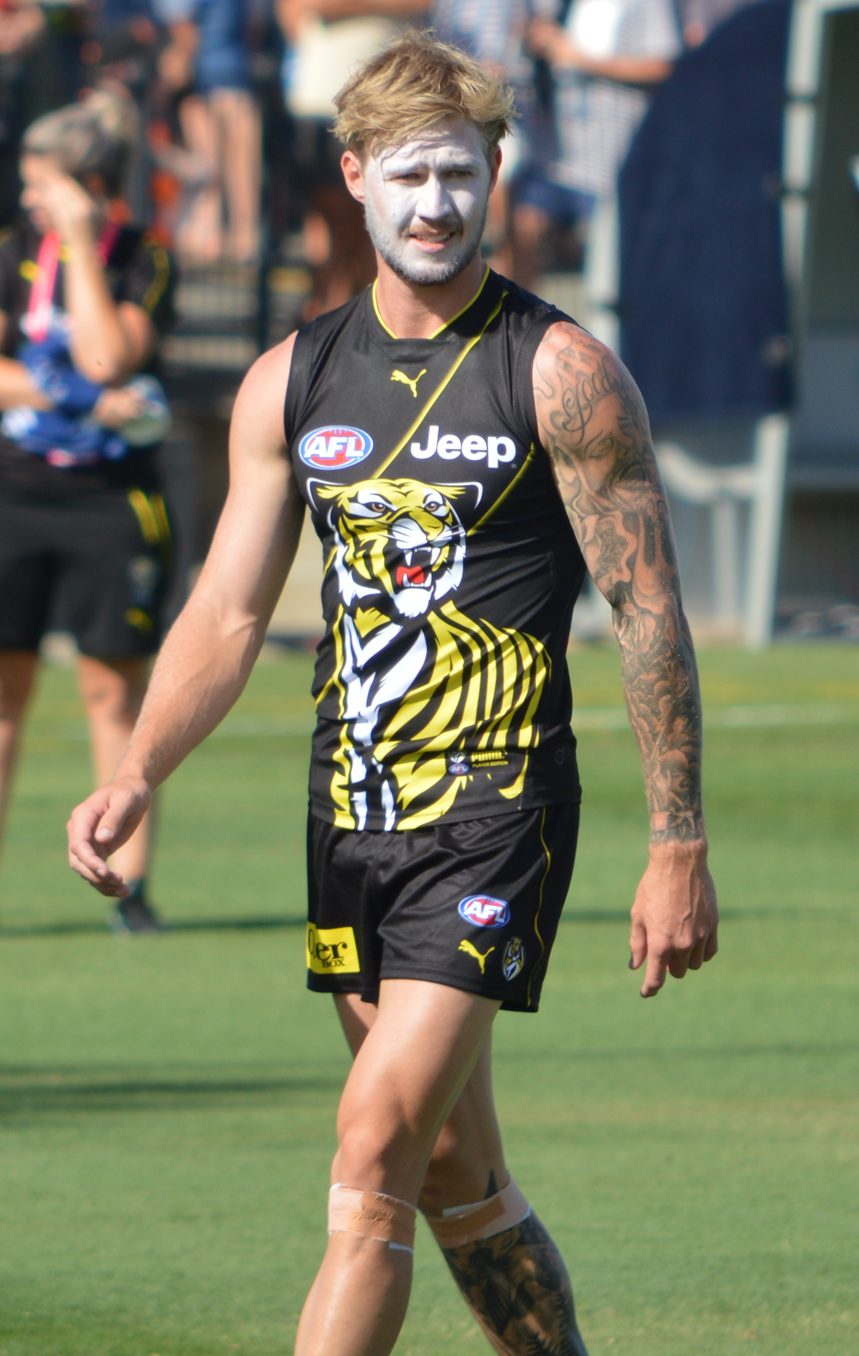 Nathan Broad with Richmond during a JLT Community Series match against Melbourne in Shepparton in March 2019.